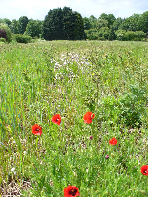 Set-aside Field, Effingham. One of several fields not currently being cultivated.